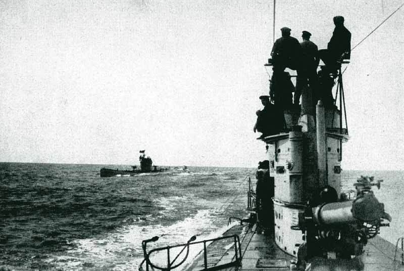 The German submarines SM U 52 (right) and SM U 35 (left) meeting in the Mediterranean